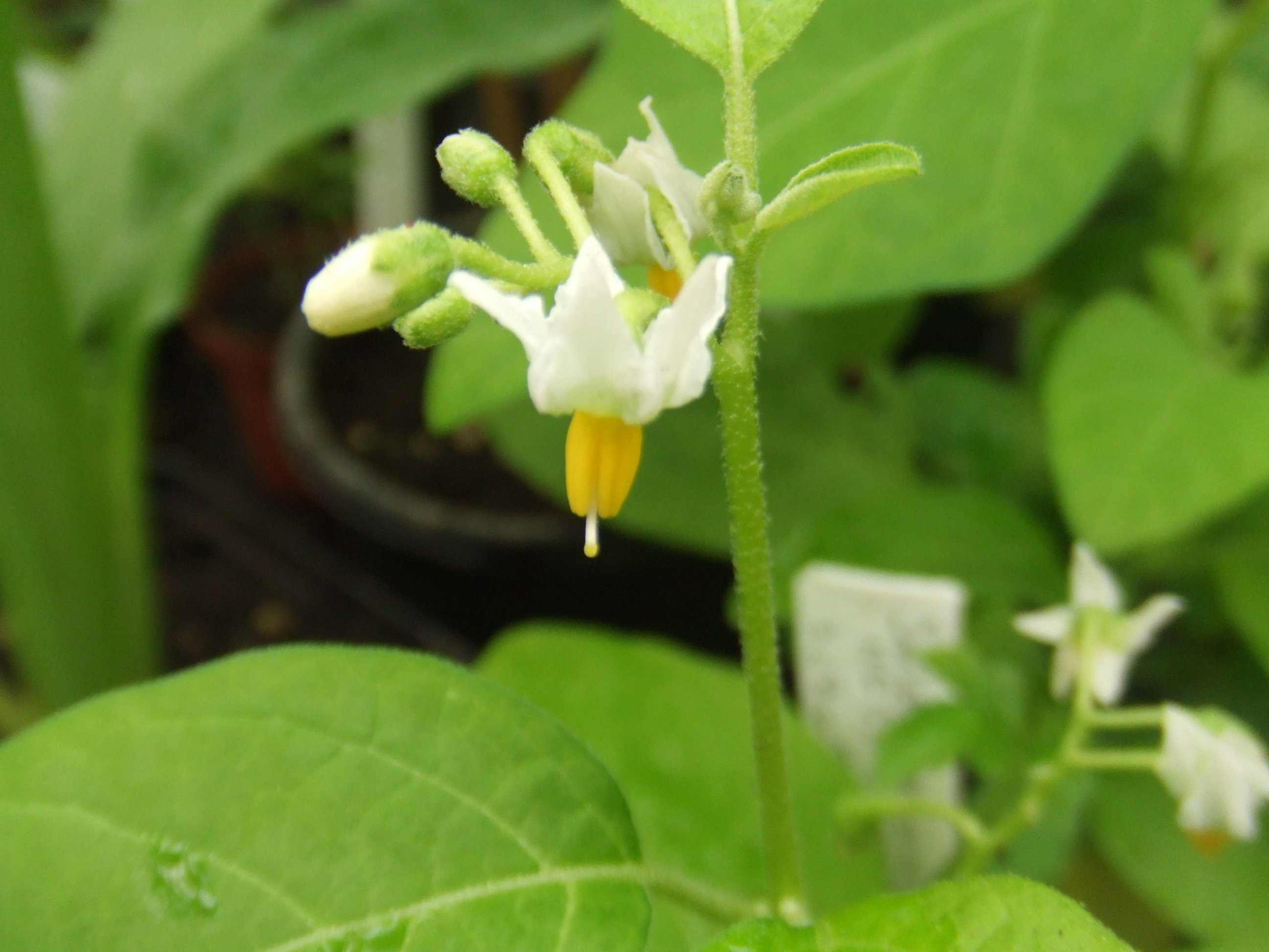 Solanum aethiopicum, picture taken at the Botanische tuin TU Delft in Delft, The Netherlands